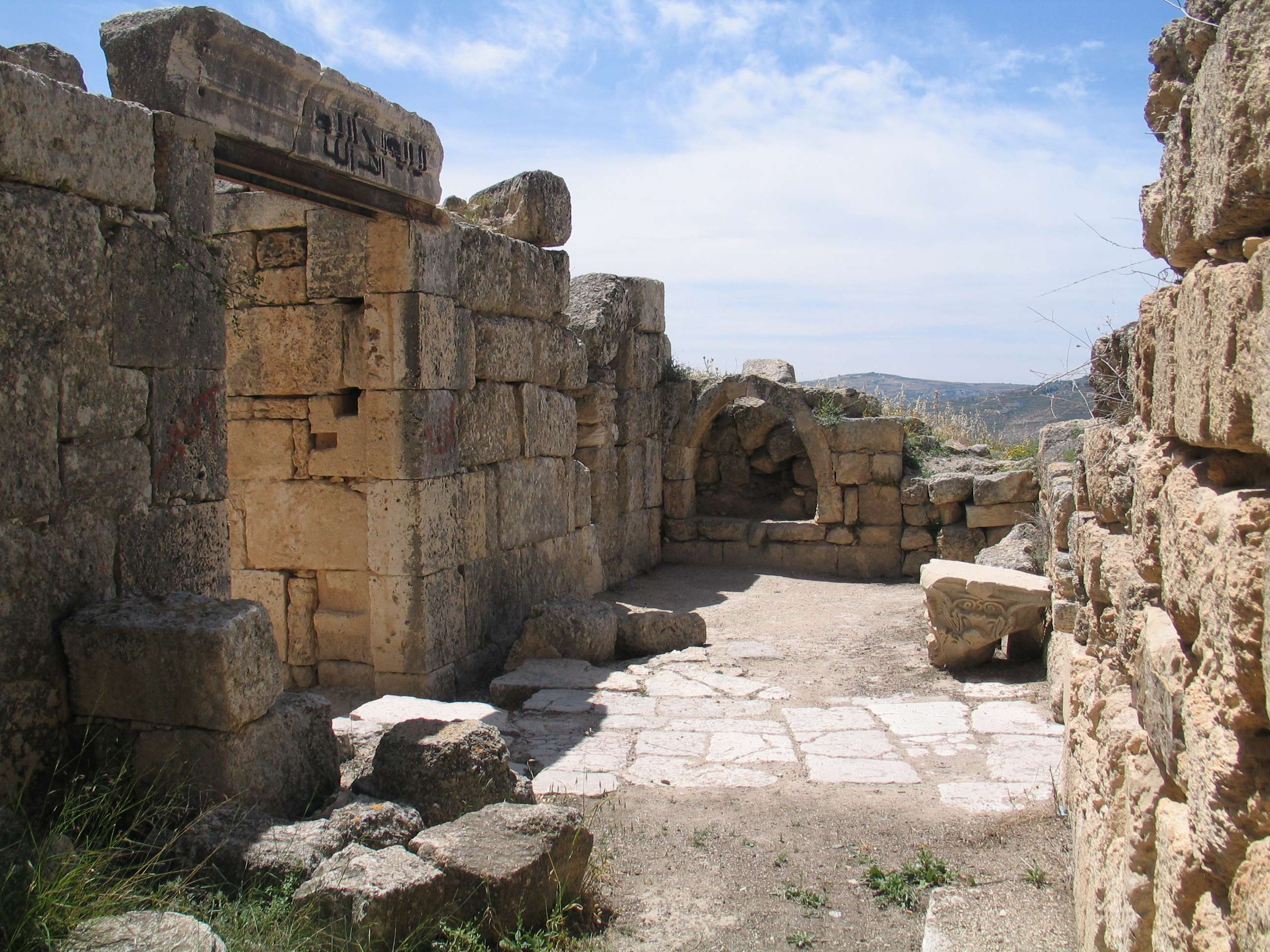 Shomron National Park (Sebastia).